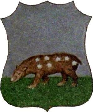 Coat of arms used as pennon in the Battle of Las Navas de Tolosa by madrilian troops